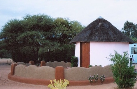 Tradition house in Mahalapye, Botswana. Author: Tomas Petersson. 2004. Cropped from original